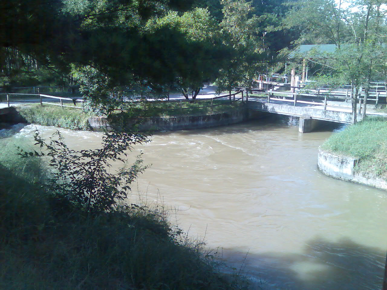 Naviglio di Cremona at the Tombe Morte hydrographical node, 30 km NW of Cremona.